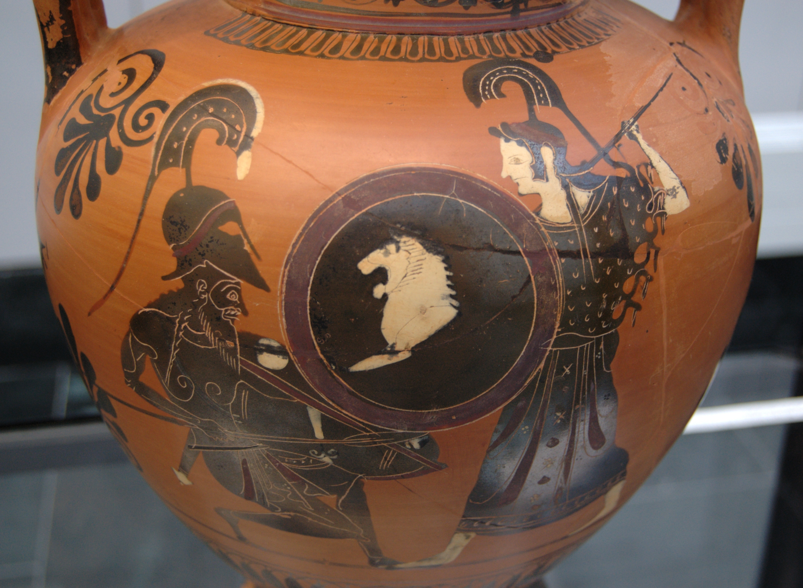 Gigantomachy (Athena and Enceladus)? Attic black-figure amphora, ca. 520 BC. From Vulci.